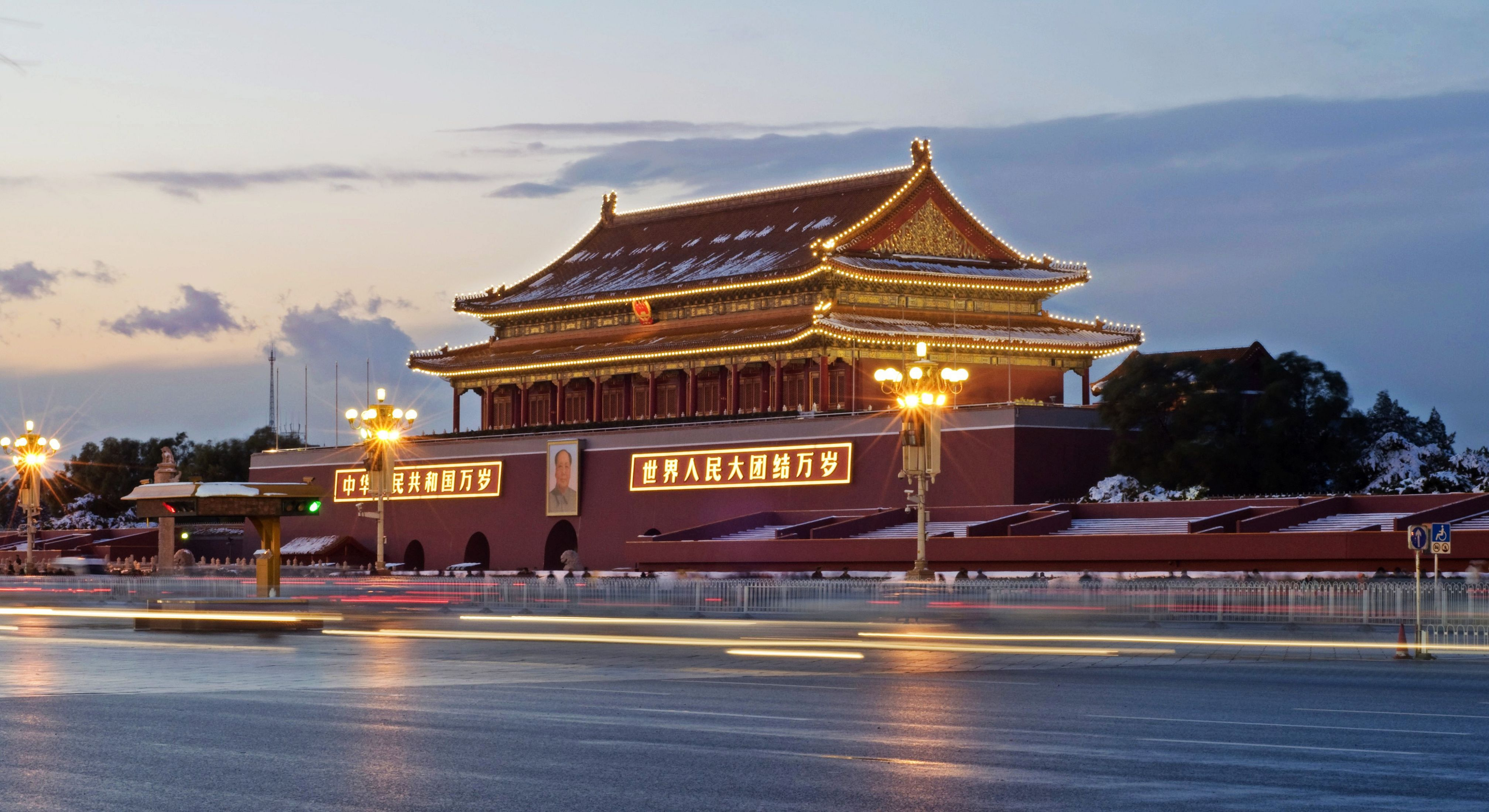 The night view of Tiananmen